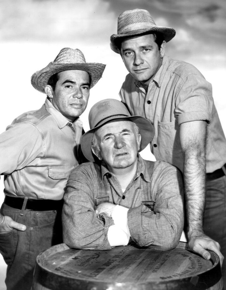 Photo from the television program The Real McCoys. Standing, from left: Anthony Martinez (Pepino) and Richard Crenna (Luke McCoy). Seated: Walter Brennan (Grandpa Amos McCoy).